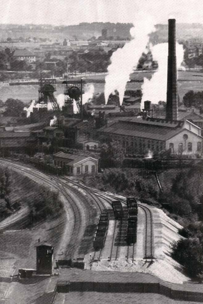 Coal mine Florentine, postcard, 1938.